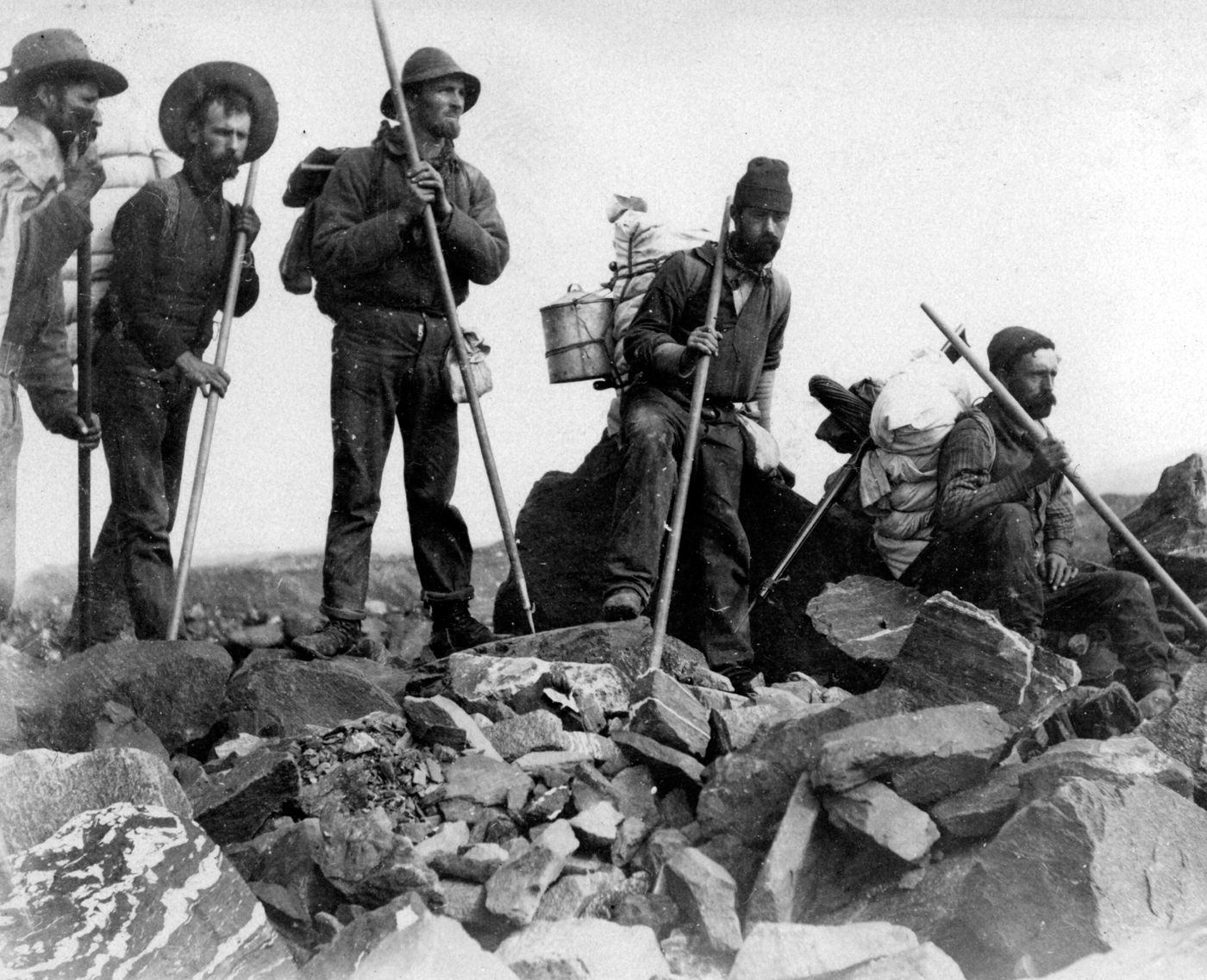 USGS caption: "I.C. Russell leading a U.S. Geological Survey party across the moraines of the Malaspina Glacier. Yakutat district, Alaska Gulf region, Alaska. c. 1890. Upper photograph page 25, Images of the U.S. Geological Survey, 1879-1979." Five men in outdoor clothing, with backpacks and walking staffs, standing and sitting on rocky ground. The caption identifies this as the moraine of Malaspina Glacier. This is on the party's route to Mount St Elias. The USGS description on the website does not identify the men, nor does the 1979 publication it cites. Russell is possibly the one standing on rocks in the middle, looking off into the distance. (This is not a sure identification; Sylvestre [1] has Russell on the far right but provides no source or explanation for the identification.) Besides the dynamic pose and the resemblance to other photos of Russell (prominent brows, eyes set wide and deep, shape of nose, jutting chin; unfortunately the forehead and ears are hidden), the standing man is wearing a souwester (hat). Russell wrote that this proved to be the most practical headgear on this trip, but none of the others is wearing one. Note the rope pack-straps which Russell also described.